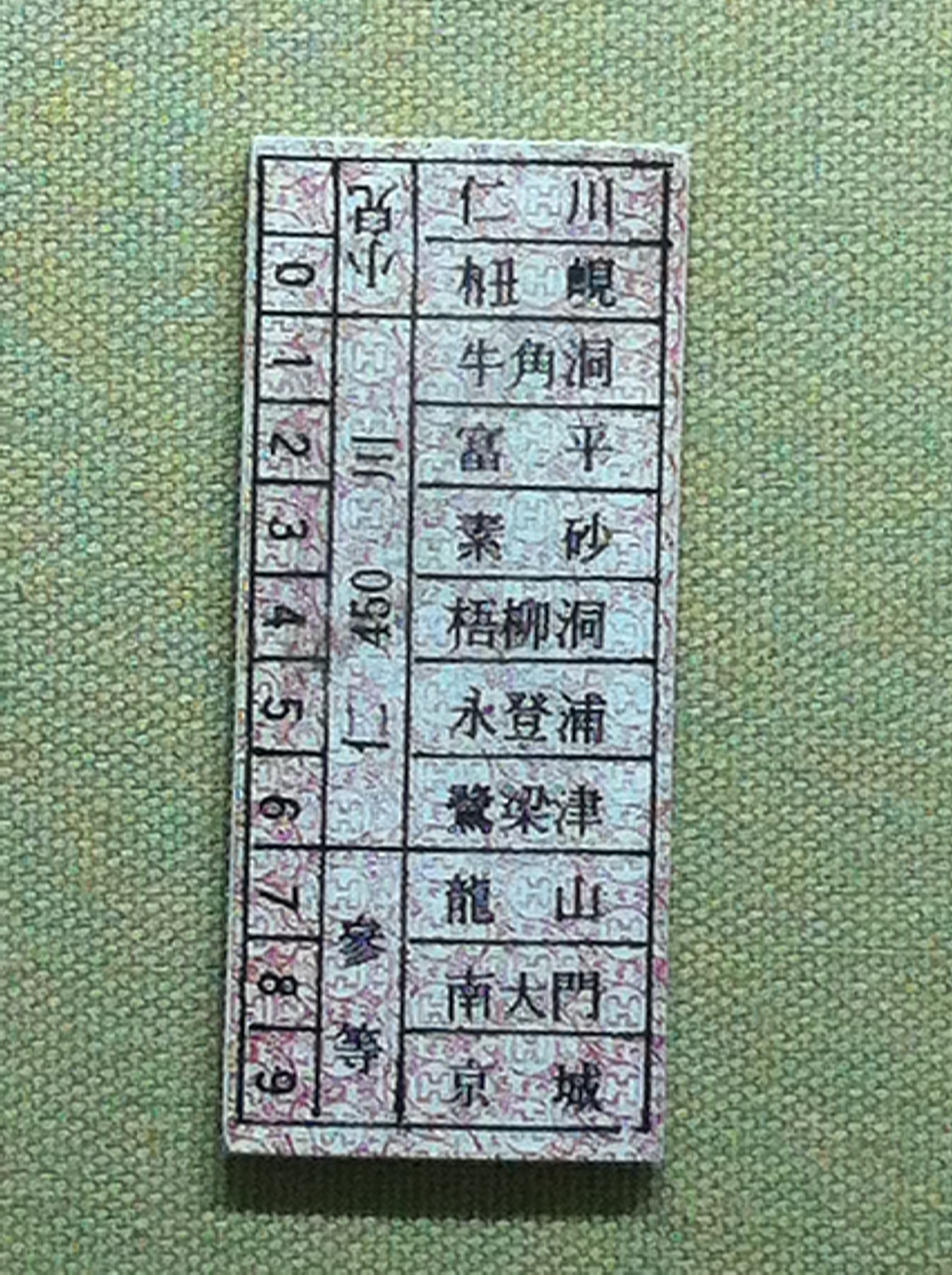 Train ticket of Seoul to Incheon at 1900(replicate)